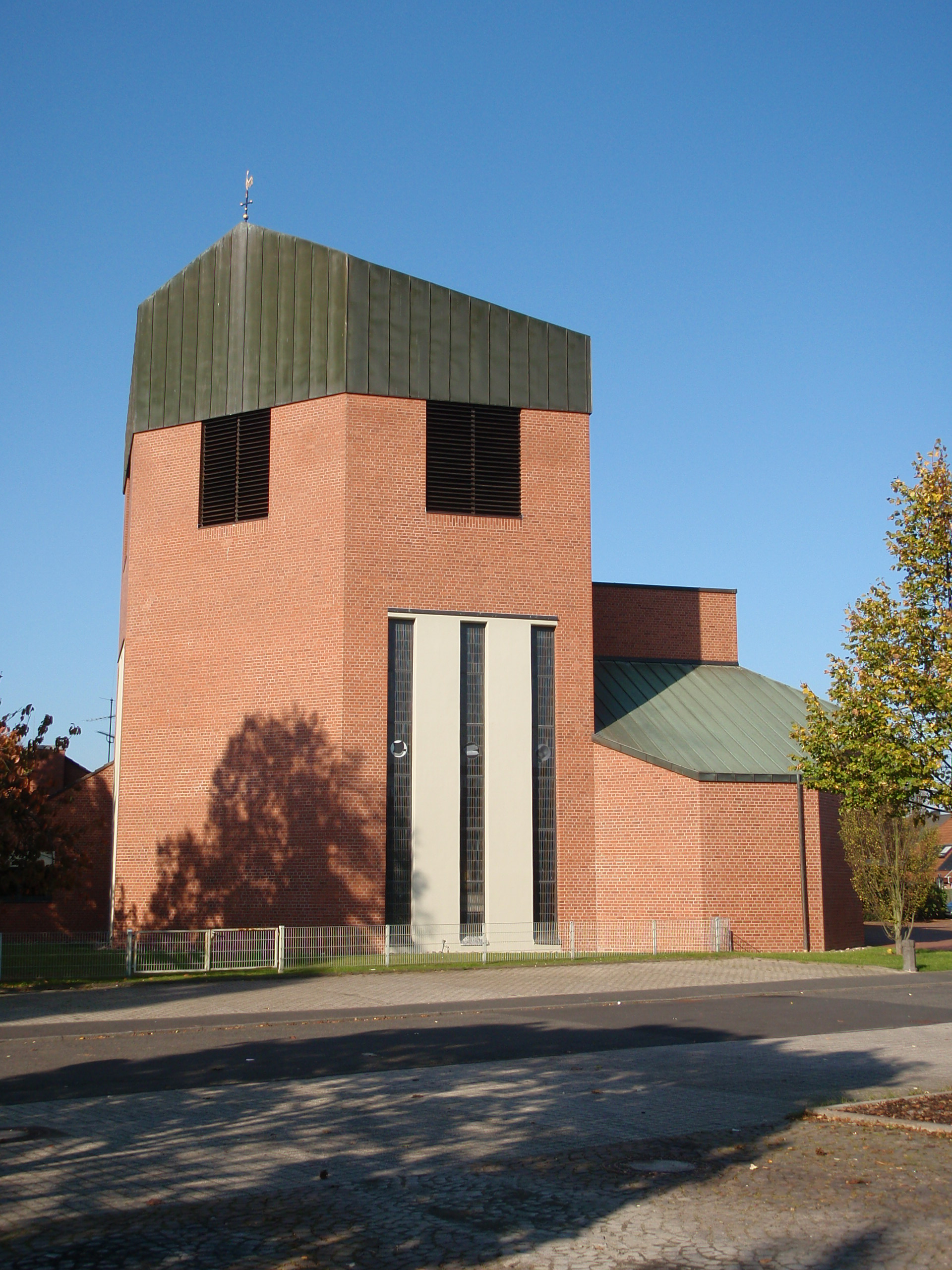 Photo of Catholic church St. Georg in Sankt Augustin-Buisdorf, Germany.